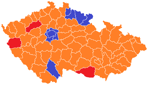 Elections to the Chamber of Deputies in 2002 - winning party by districts (blue ODS, orange ČSSD, red KSČM)